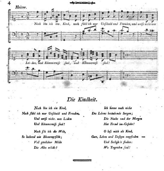 Gottlob Wilhelm Burmann, Kleine Lieder für kleine Mädchen (1772). Song: "Die Kindheit", p. 4.